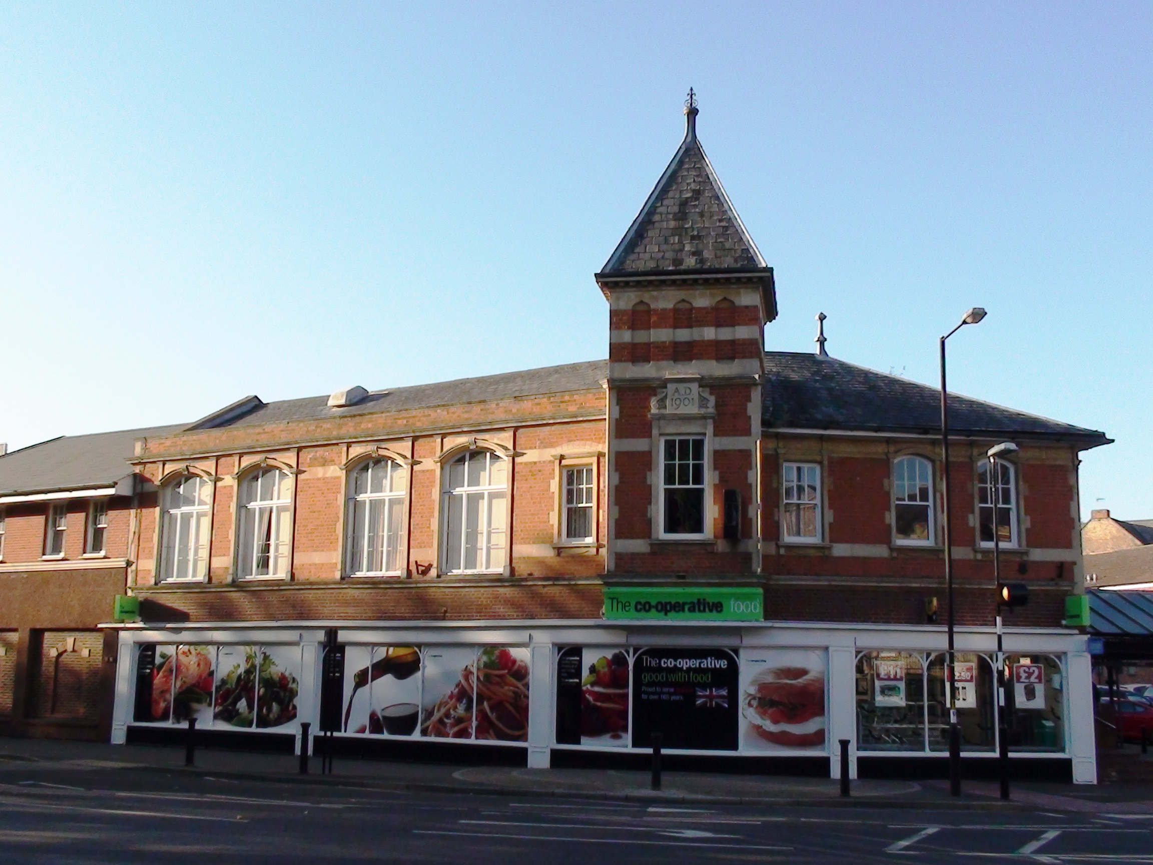 An image of Raunds Co-Op.